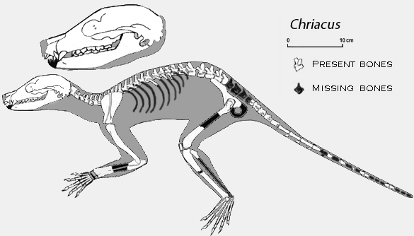 Skeletal reconstruction of Chriacus.